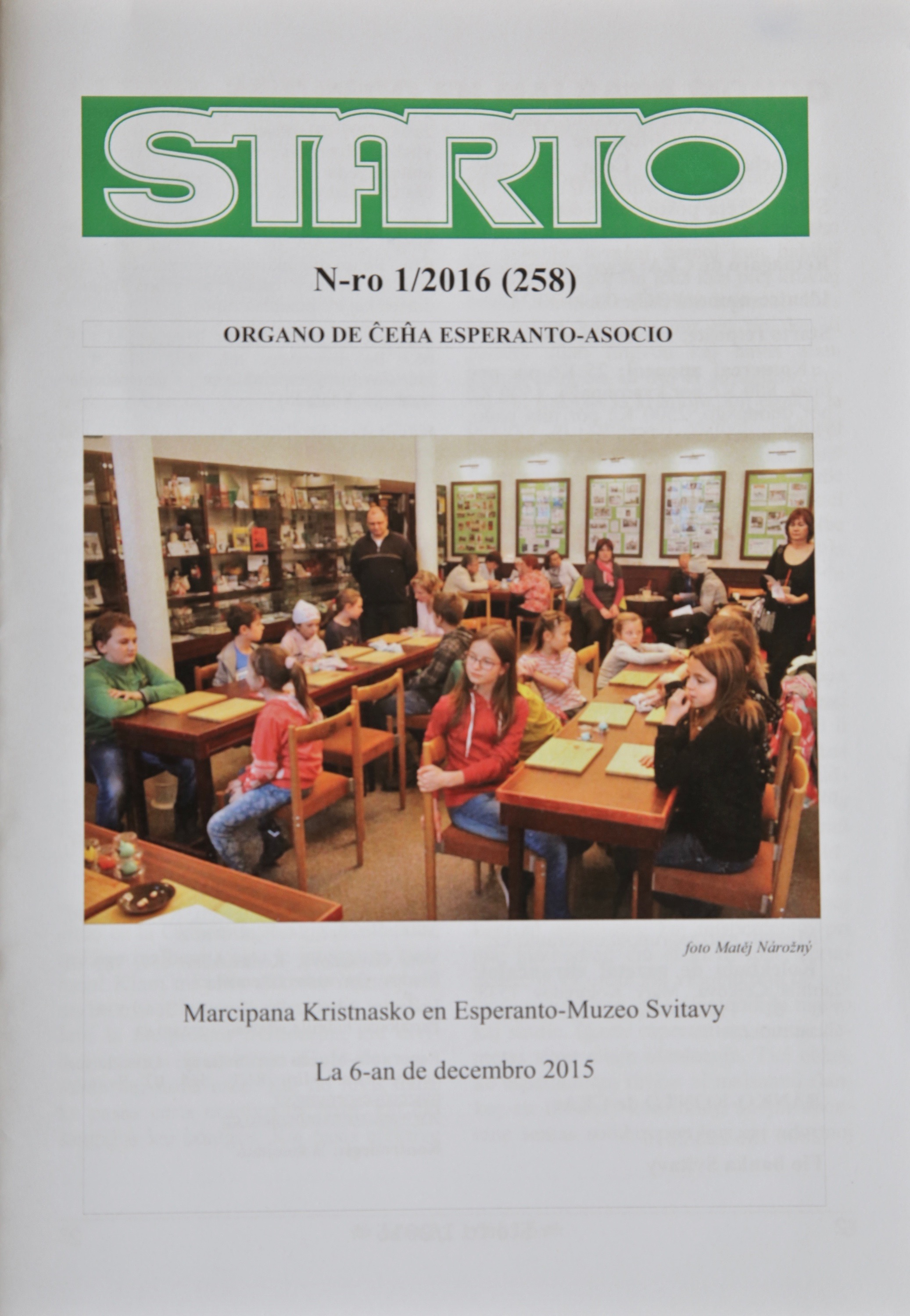 Cover page of “Starto”, issue #1/2016